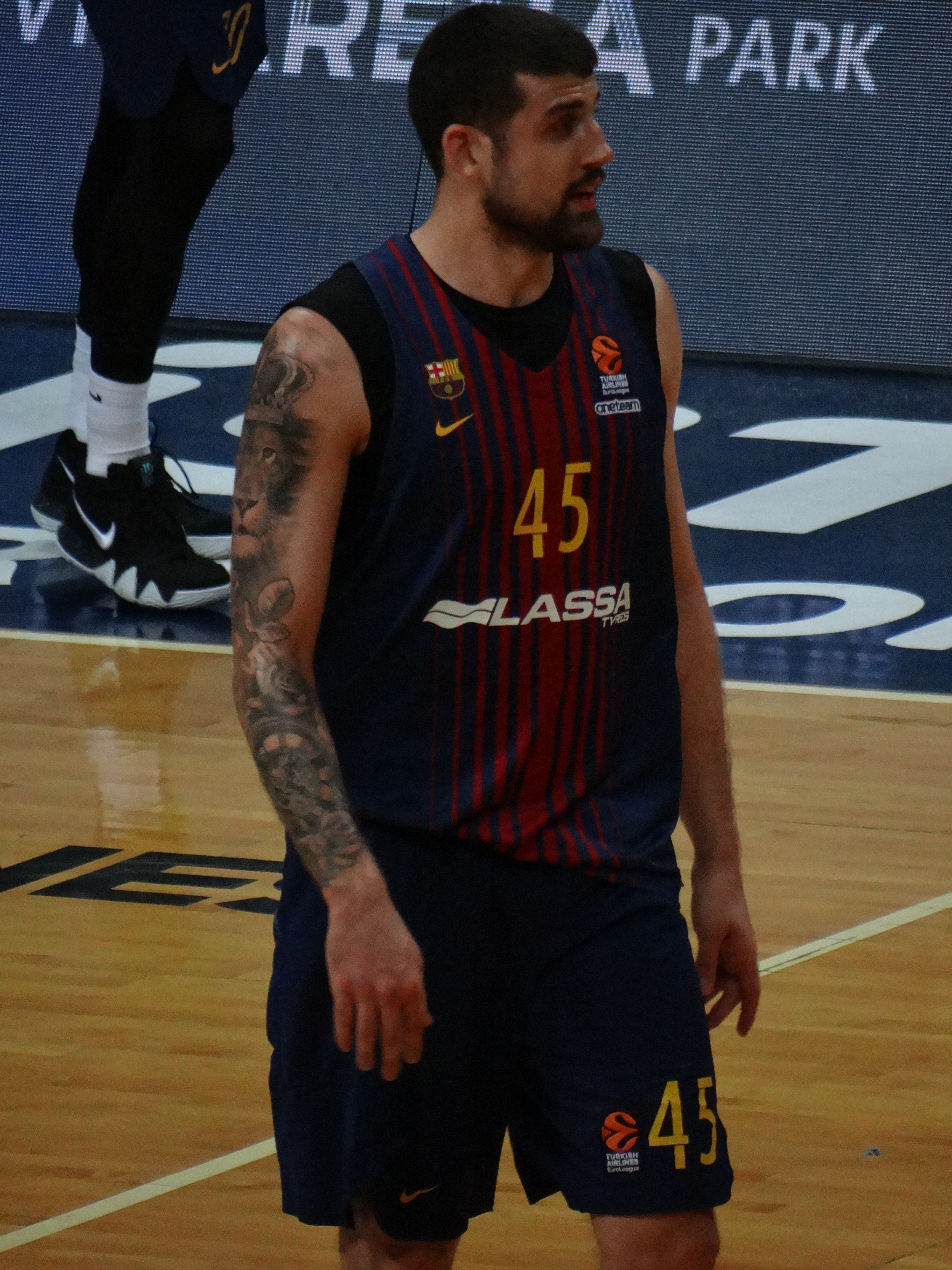 Adrien Moerman 45 FC Barcelona Bàsquet 20180126